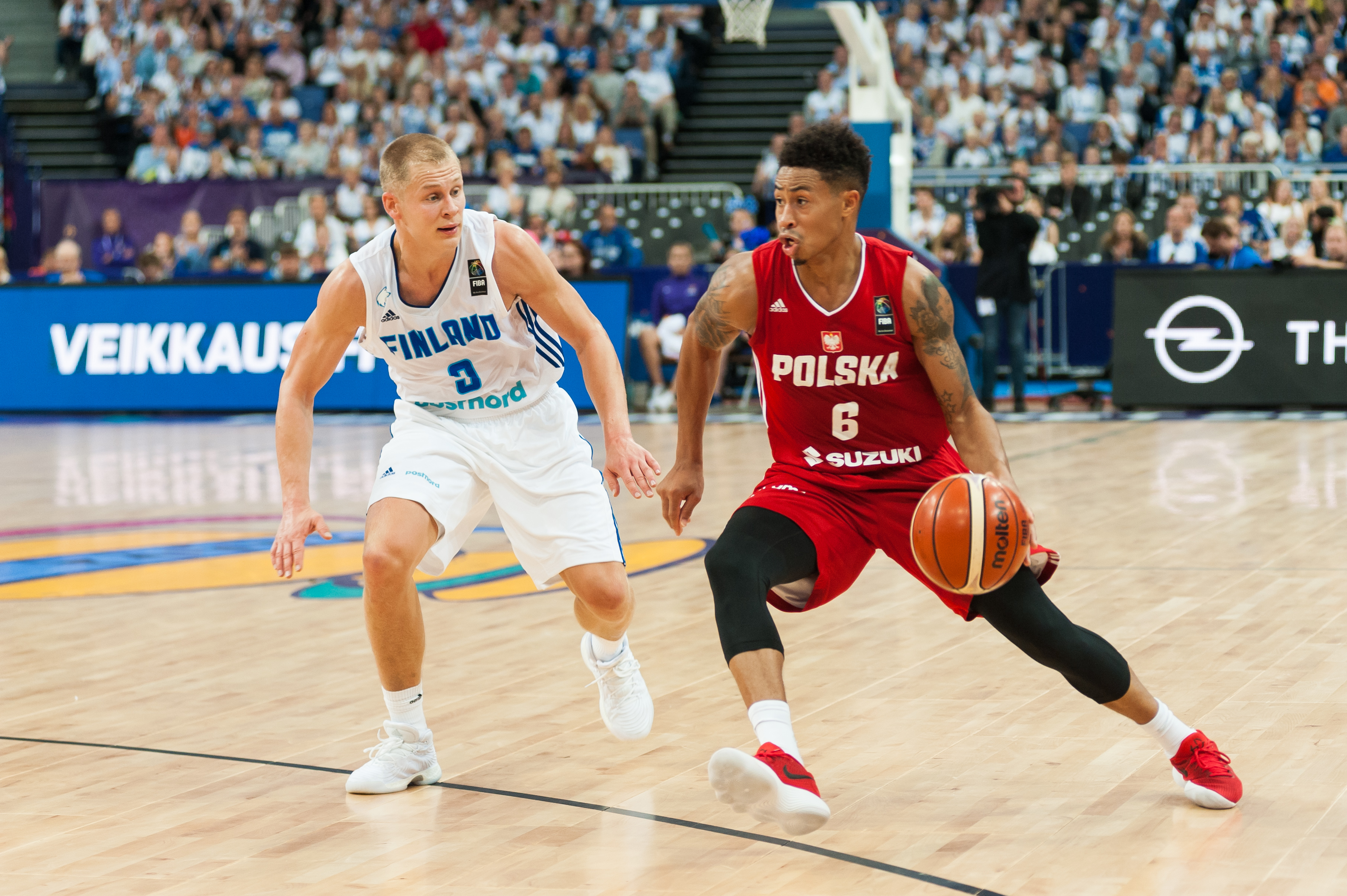 EuroBasket 2017 Group A game between Finland and Poland at Hartwall Arena in Helsinki, Finland.